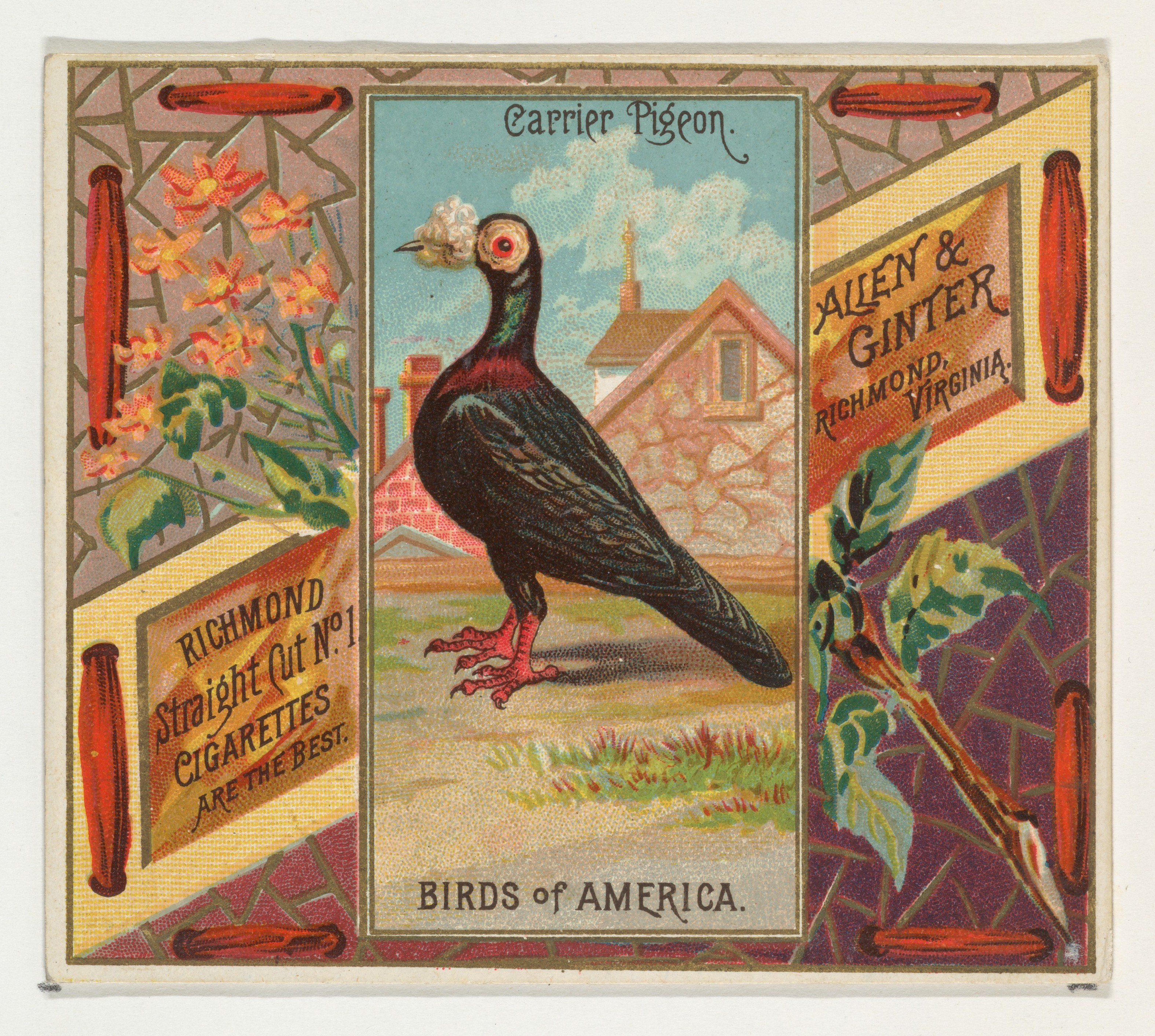 Print; Prints/Ephemera